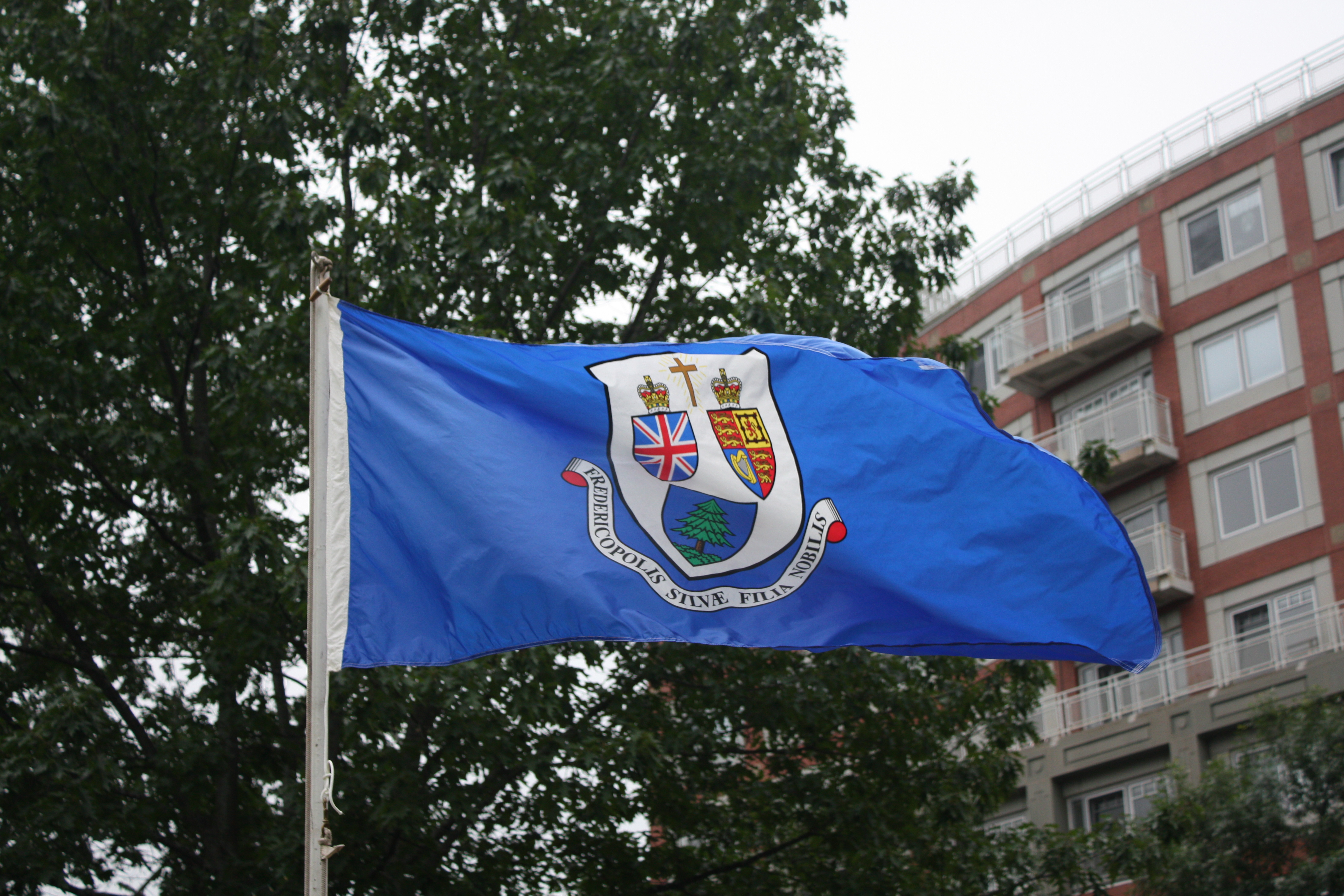 The flag of Fredericton, New Brunswick, Canada, flying in downtown St. John